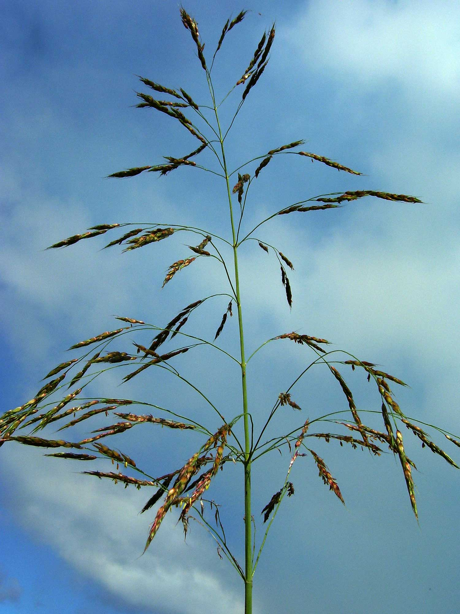 Sorghum halepense; (kola) in Tonga; however Sorghum sudanese according to some authorities